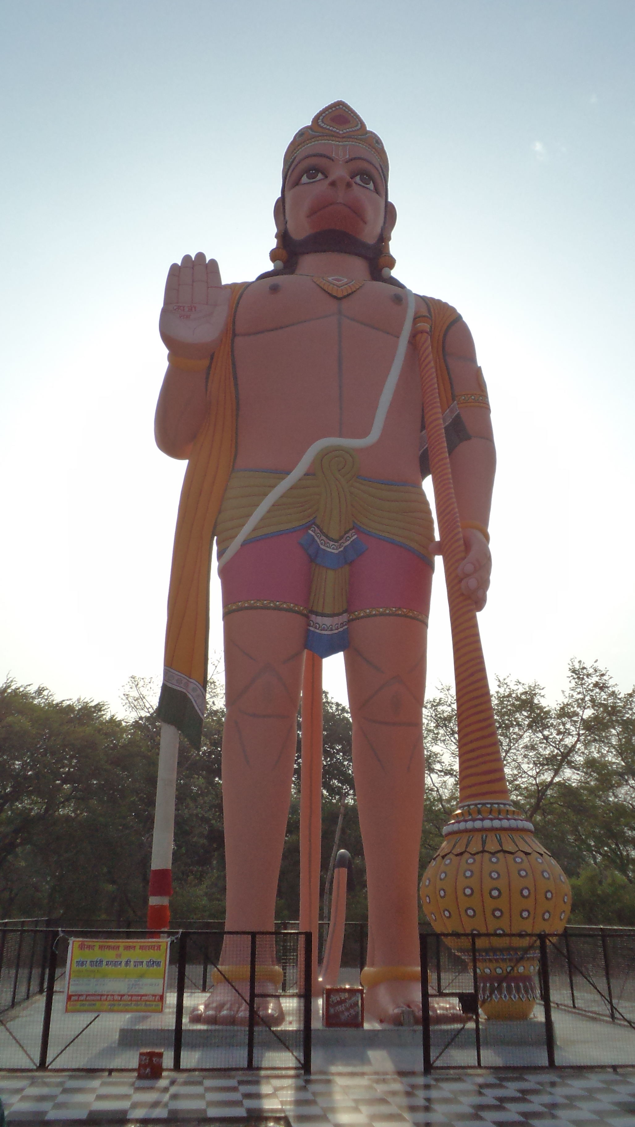 Hanuman Mandir Photos